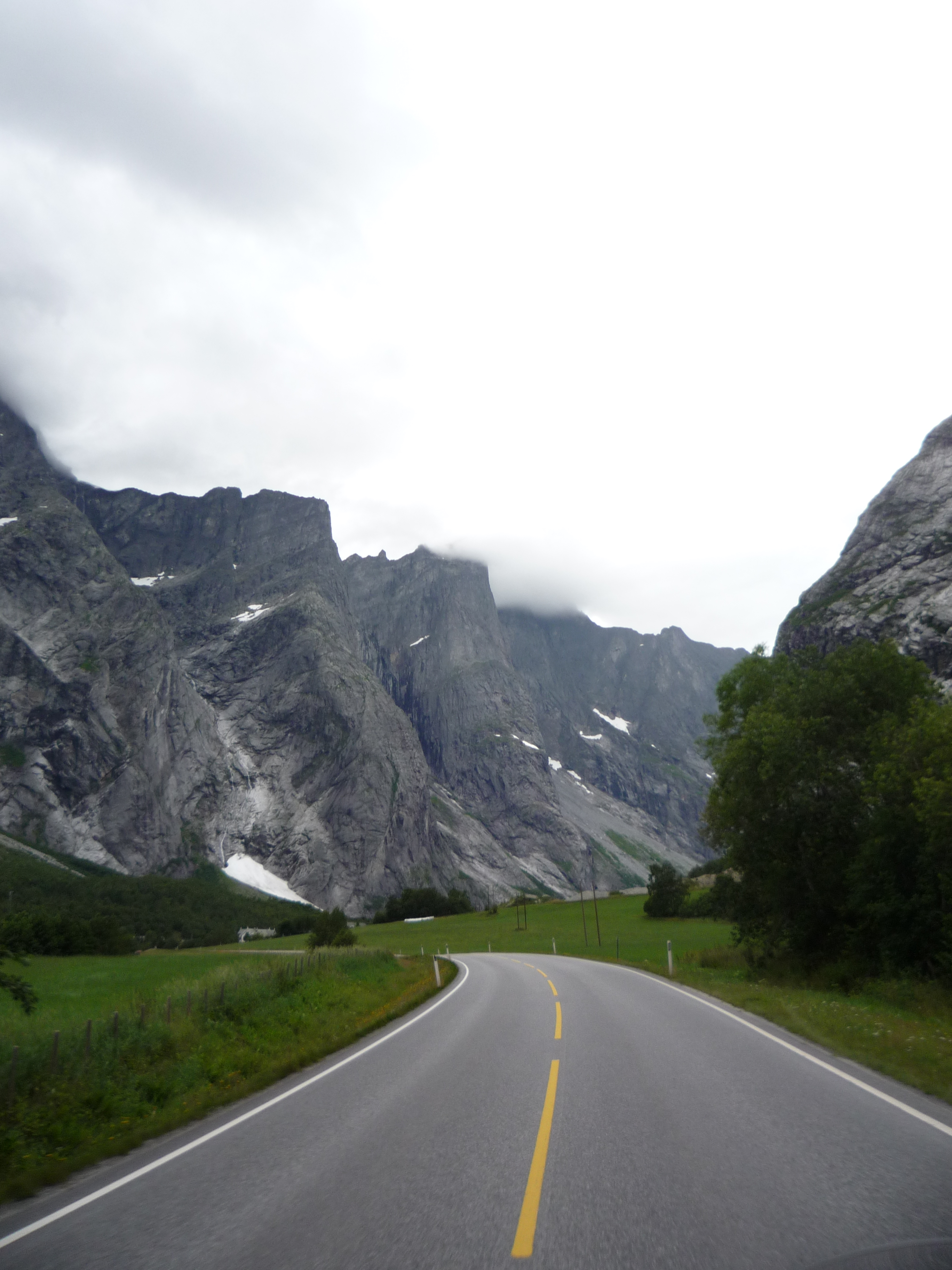 The road in Romsdalen to the city of Åndalsnes.